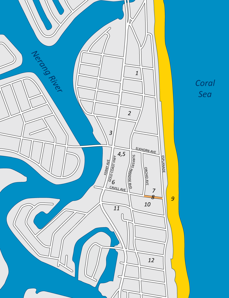 Map of Surfers Paradise with major attractions and streets marked.